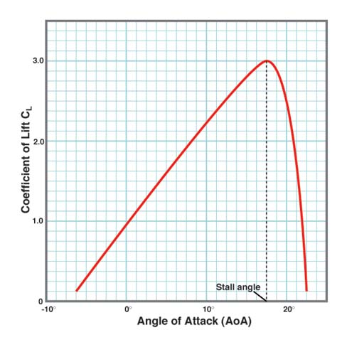 Lift Curve graph - created for a number of aerodynamics articles